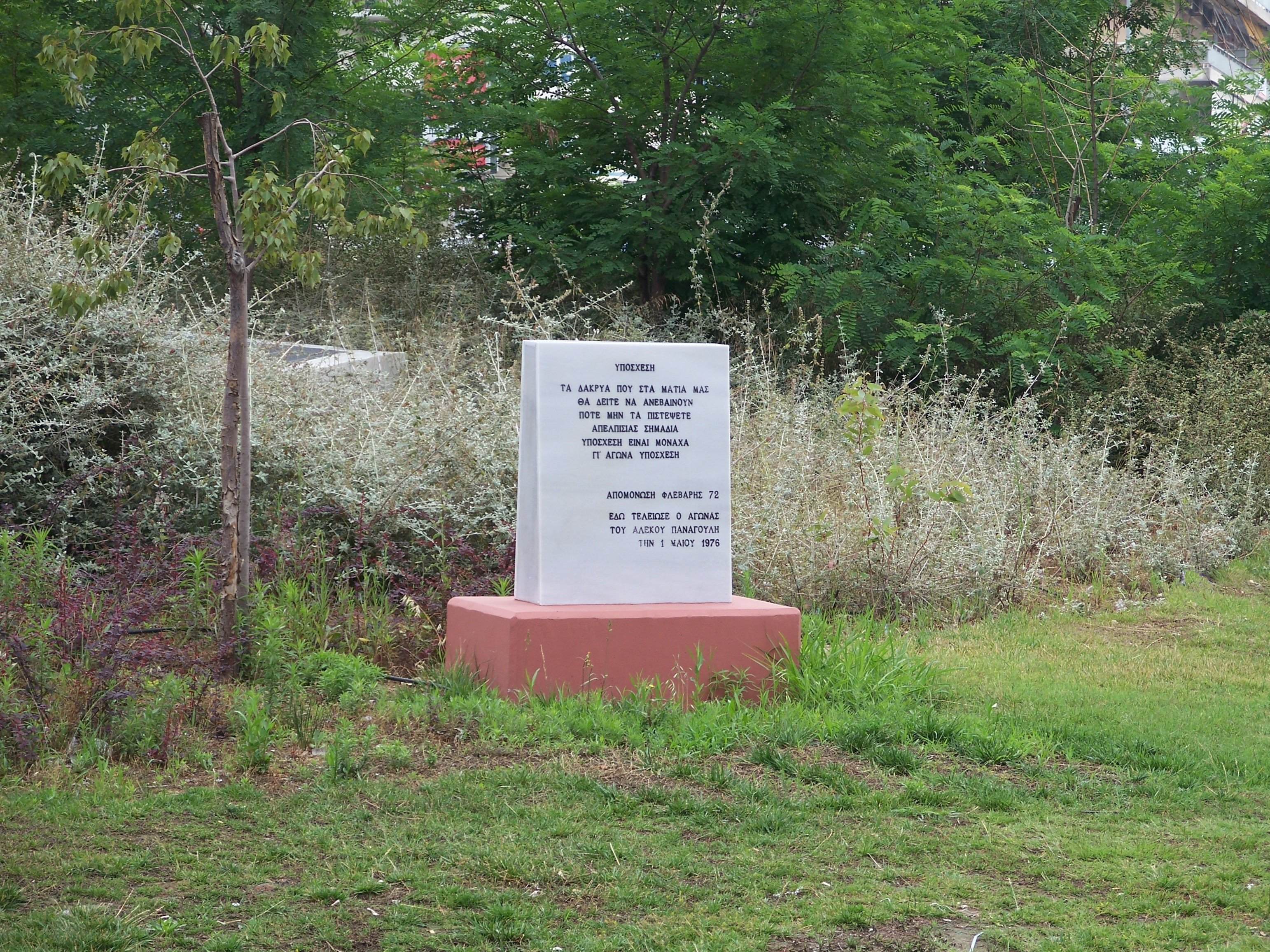 Stone with inscription at Vouliagmenis Ave., Athens, at the spot where anti-junta resistance member and later MP Alexandros Panagoulis was killed in a carcrash